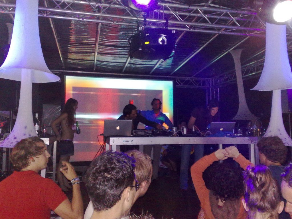 Astral Projection on Tomorrowland festival in Boom, Belgium (26 July 2008)